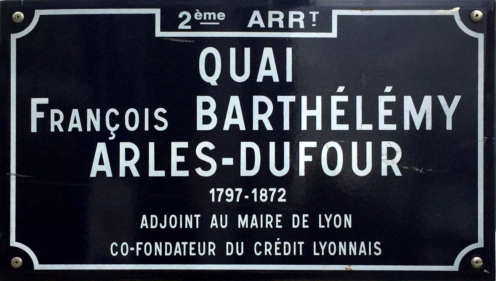 This photograph was taken with an iPhone 6